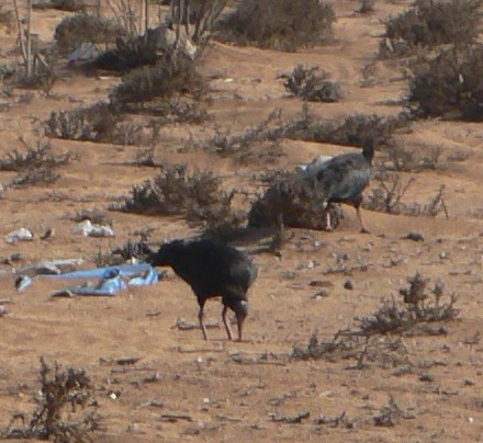 Northern Bald Ibis at Souss Massa, Morocco